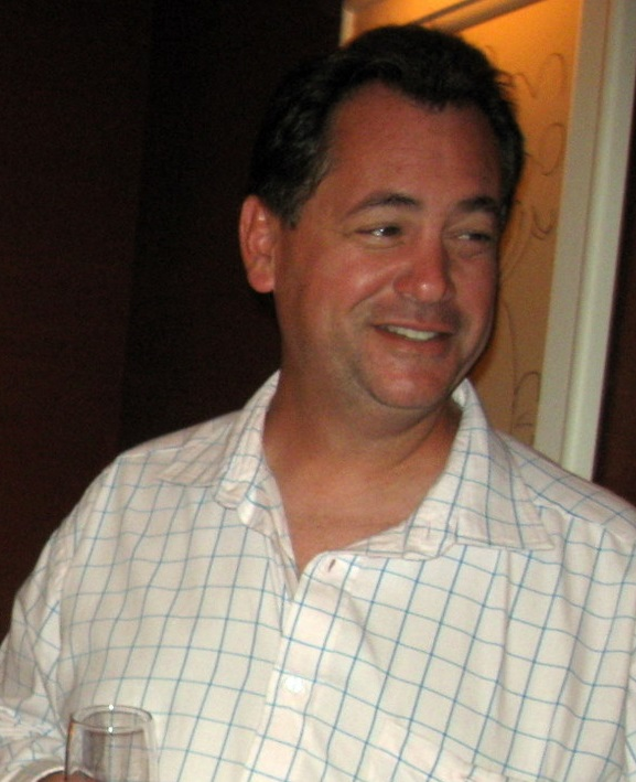 Dan Borislow - Consumer Electronics Show 2010 - CES - Las Vegas NV